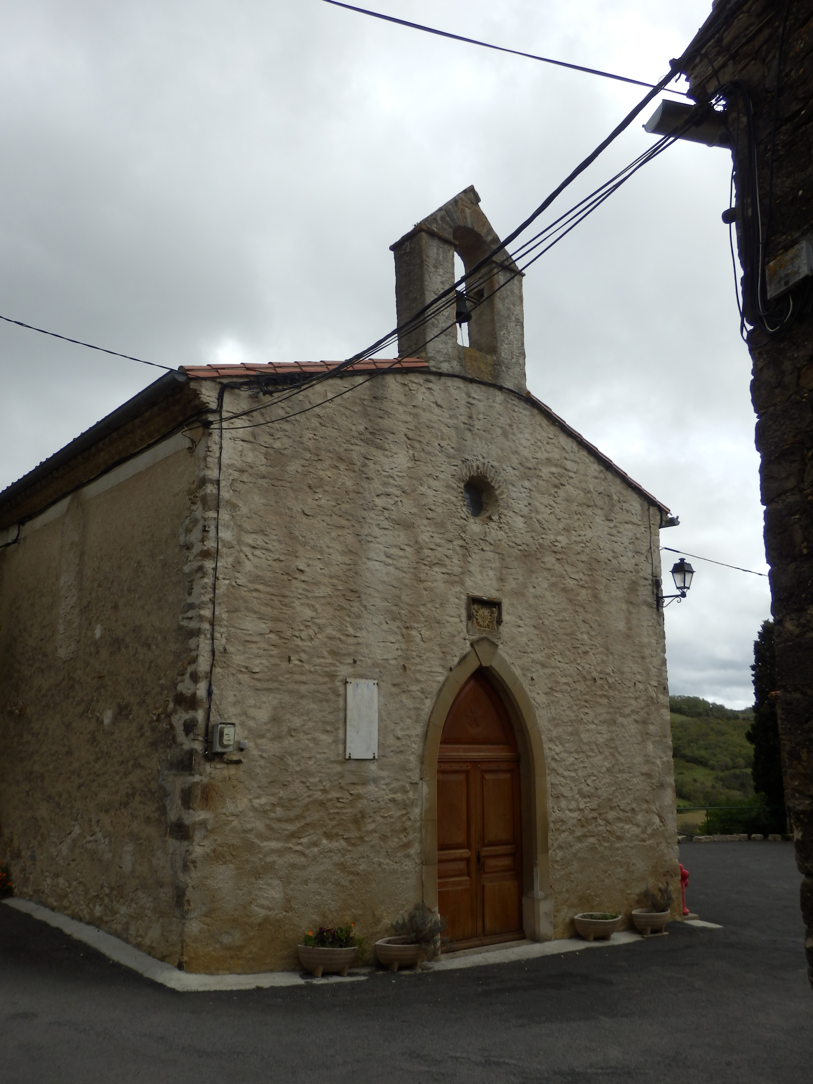 Church Sainte-Eulalie in Bourigeole, Aude, France